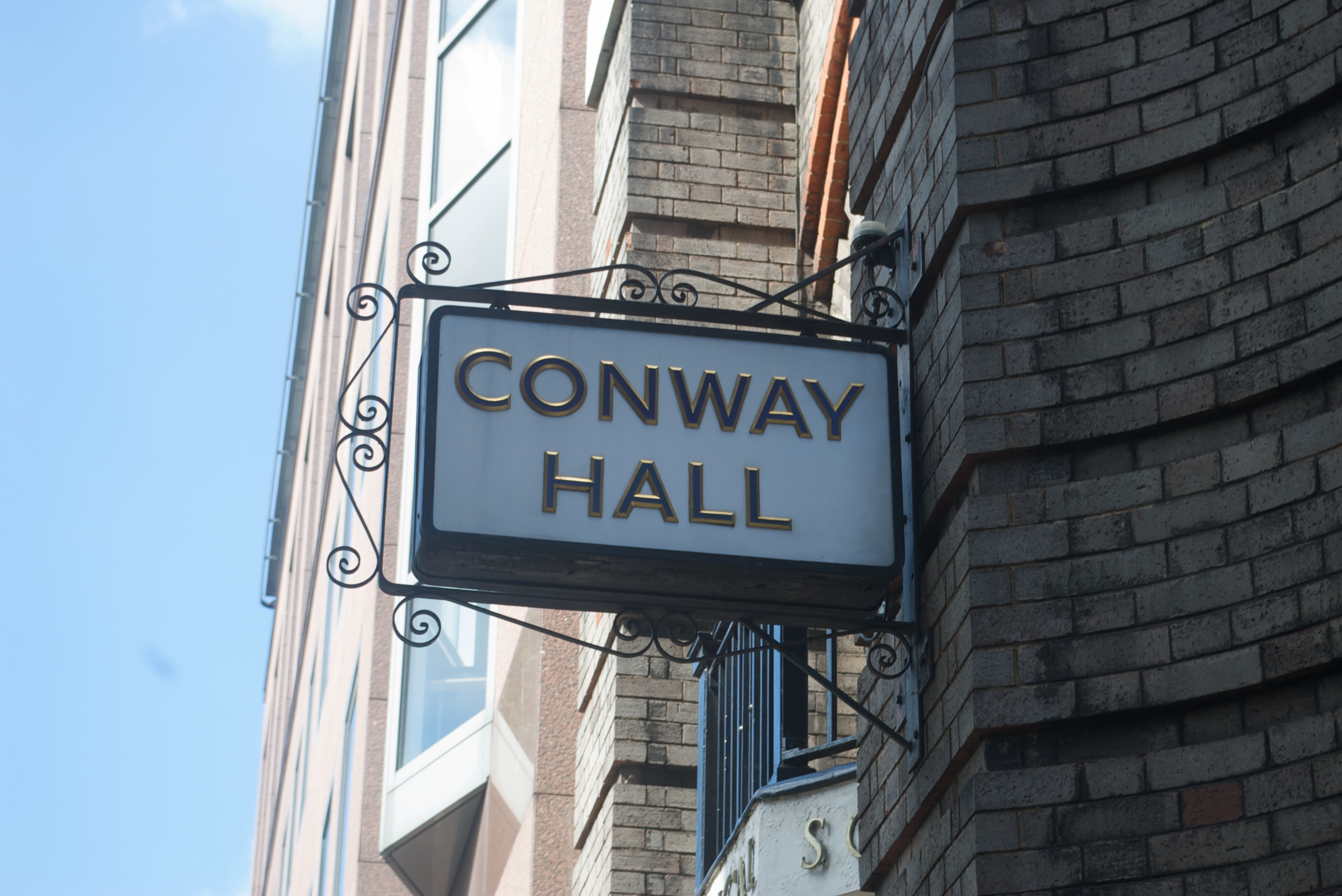 Sign outside Conway Hall, Red Lion Square, London.